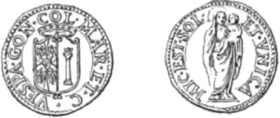 Image from Rivista italiana di numismatica 1891 (p. 513). Sabbioneta: Vespasiano I Gonzaga (1531 - 1591) Doppio soldo (double soldo) or gazzetta (1562/64) VESPA GON COL MAR ET C coat of arms: left coat of arms of Gonzaga & r. coa of Colonna family HIC EST SOL ET VNICA Holy Vierge w. Holy Son